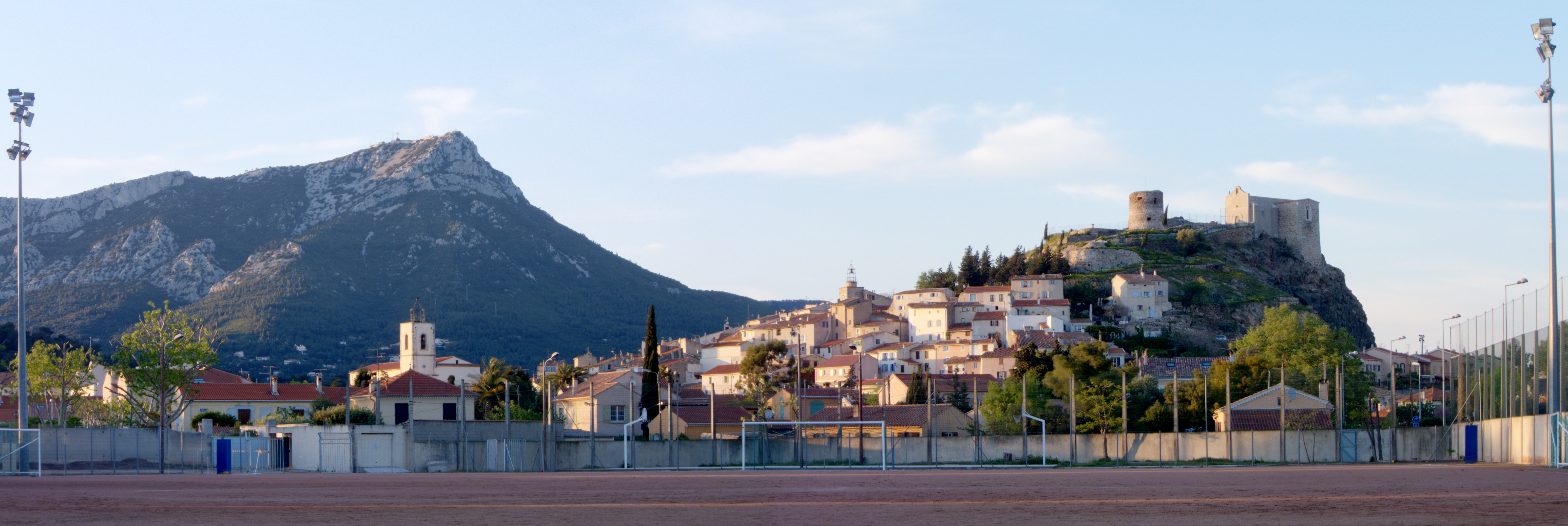 The chapel of La Garde and the Coudon from the stadium of La Garde,France